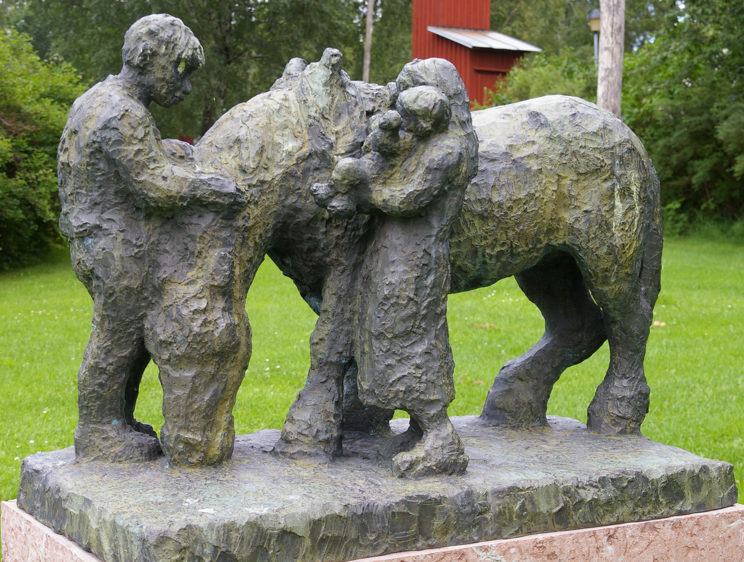 The sculpture "De odlade jorden" by Jalmar Lindgren (1975).